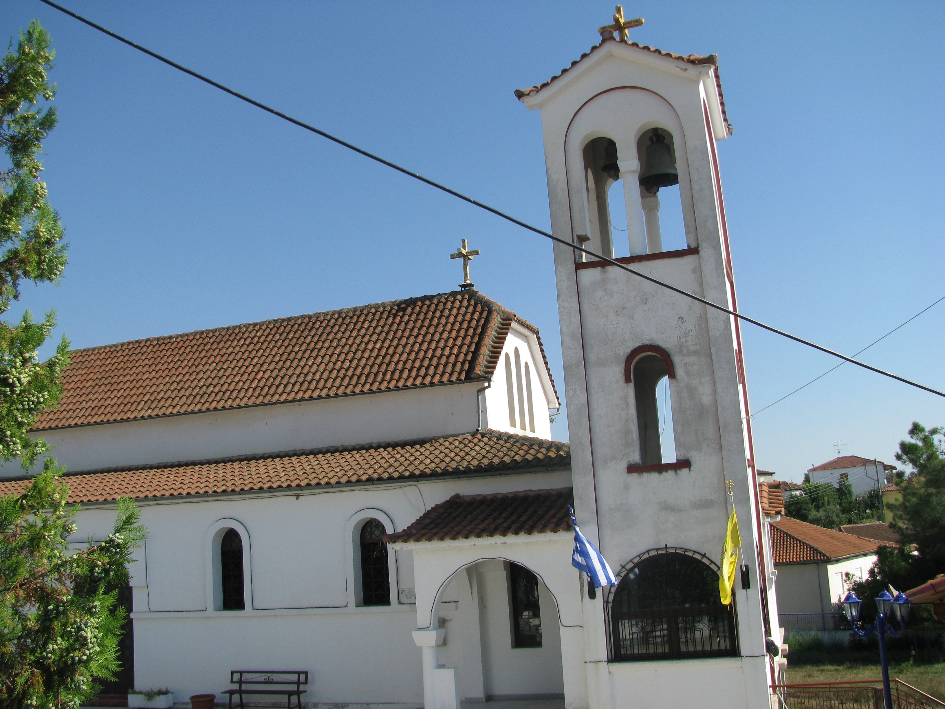 New Church of village of Todortsi or Teodoraki, Pella prefecture, Greece